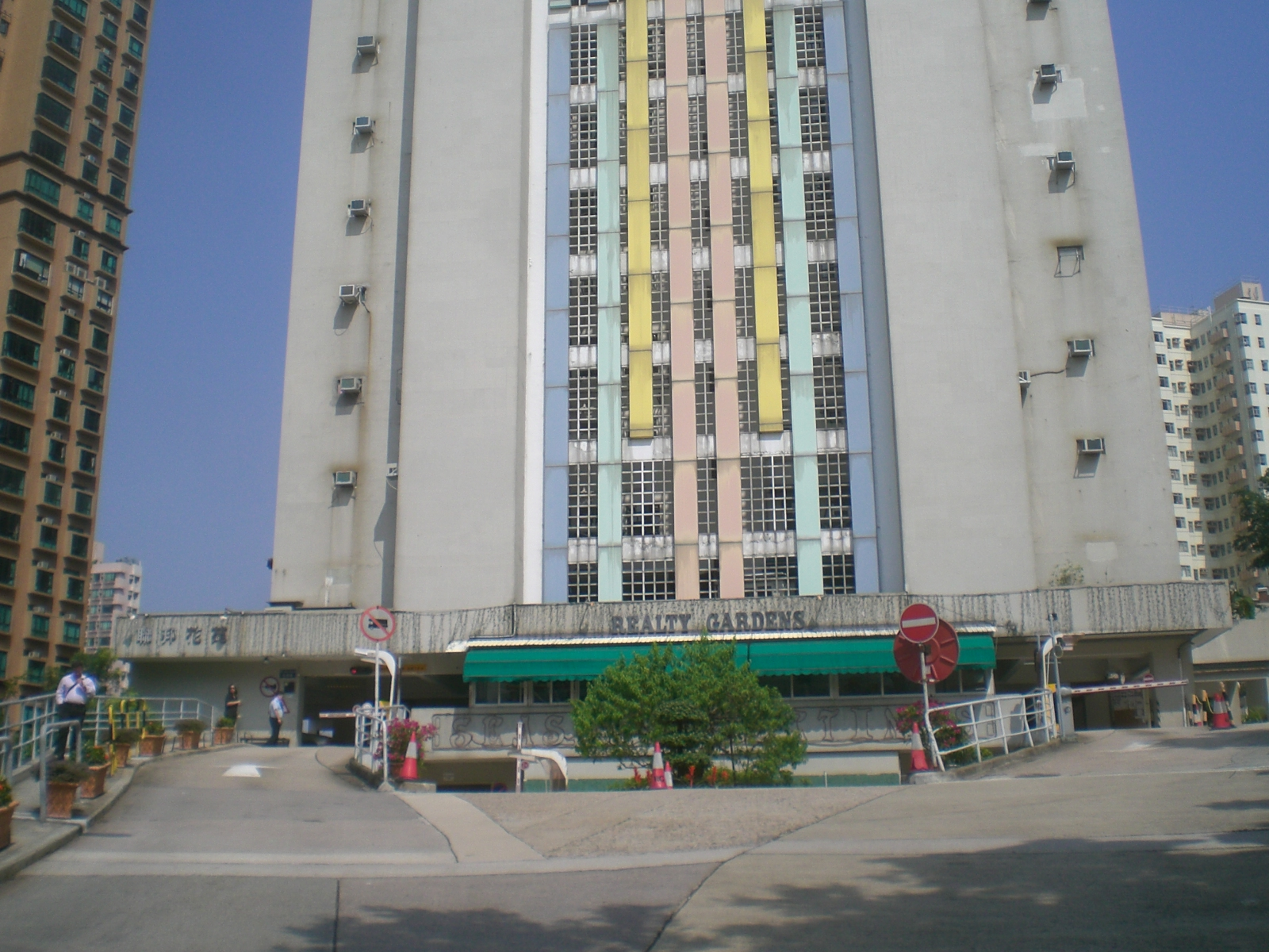 香港島zh:西半山區 寶珊道 香港島zh:西半山區 聯邦花園